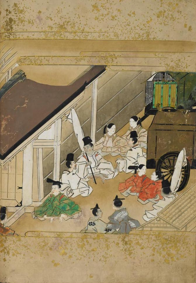 Reunion of Prince Takayoshi and Princess Mikushige-dono (implicated by two ox carriages). From Ehon Shinkyoku. Owned by Meisei University.